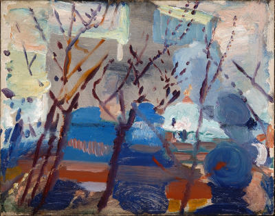 weehawken-sequence